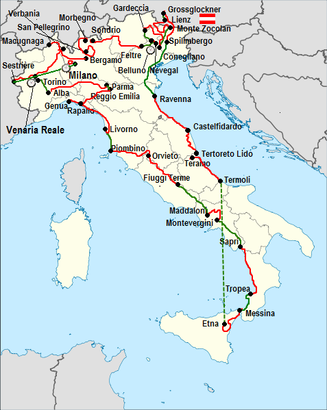 Map Giro d'Italia 2011